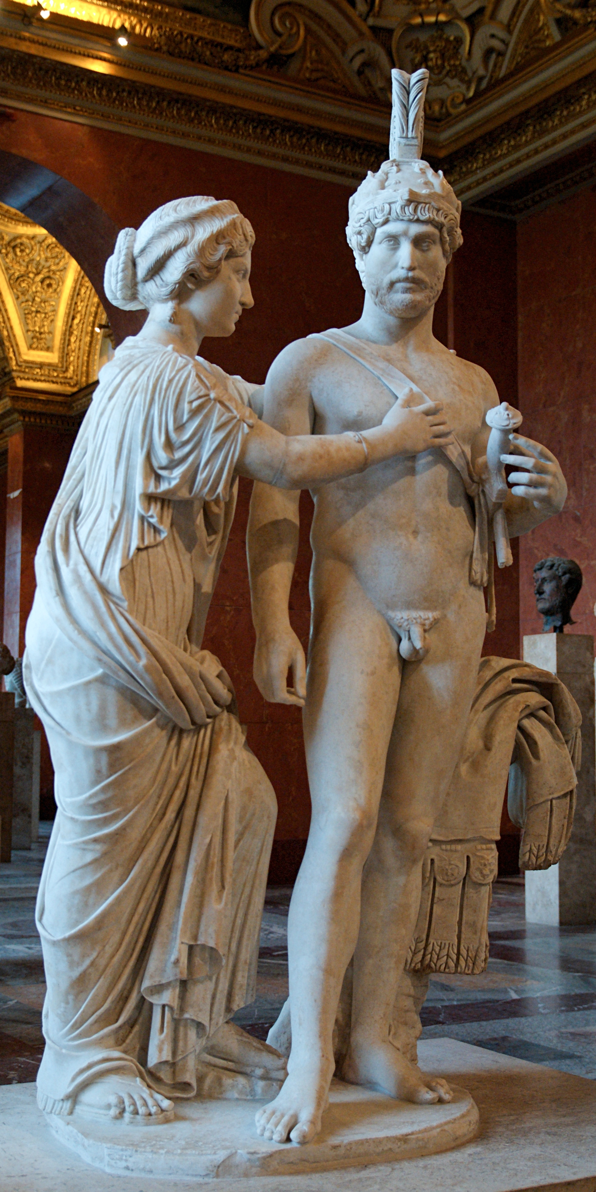 Imperial group as Mars and Venus; the male figure is a portrait of Hadrian, the female figure was reworked into a portrait of Annia Lucilla (?). Marble, Roman artwork, ca. 120–140 AD, reworked ca. 170–175 AD.